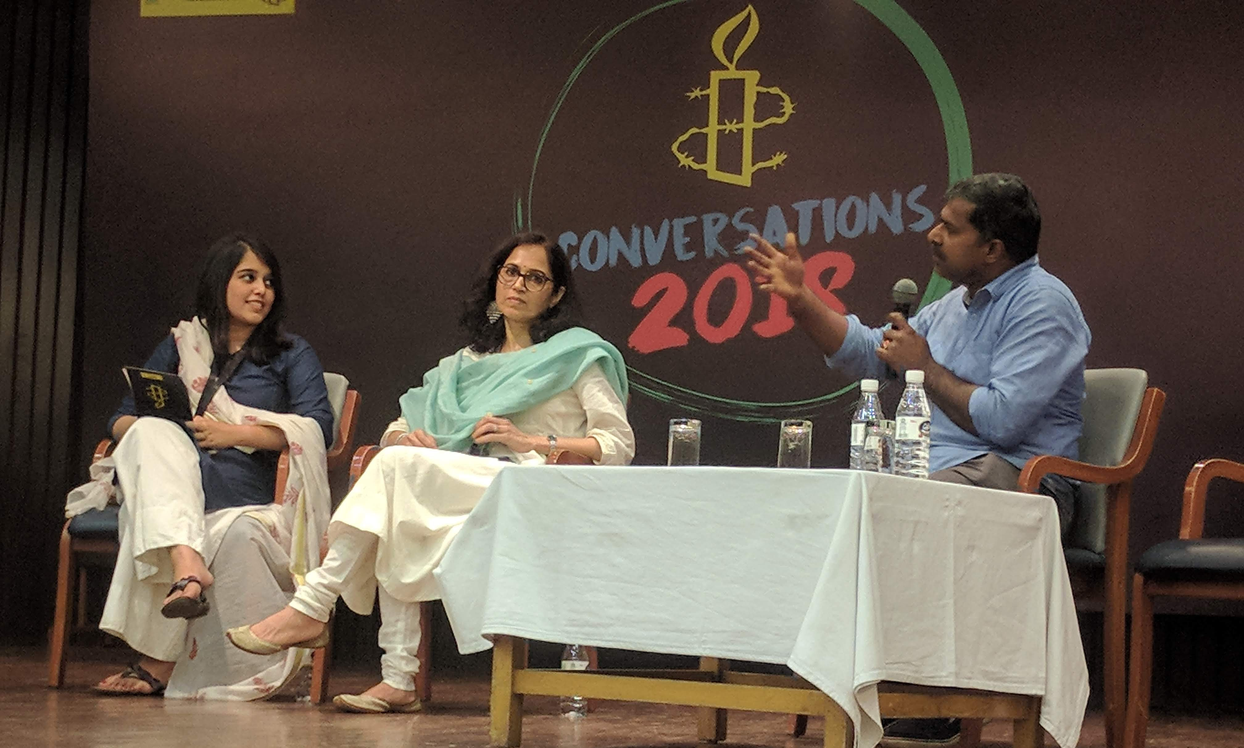 Ritu Kapur (center) at an Amnesty International Event, Conversations 18', New Delhi. Josey Joesph (left) is also pictured.